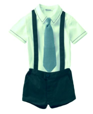 boy's suspender short pants